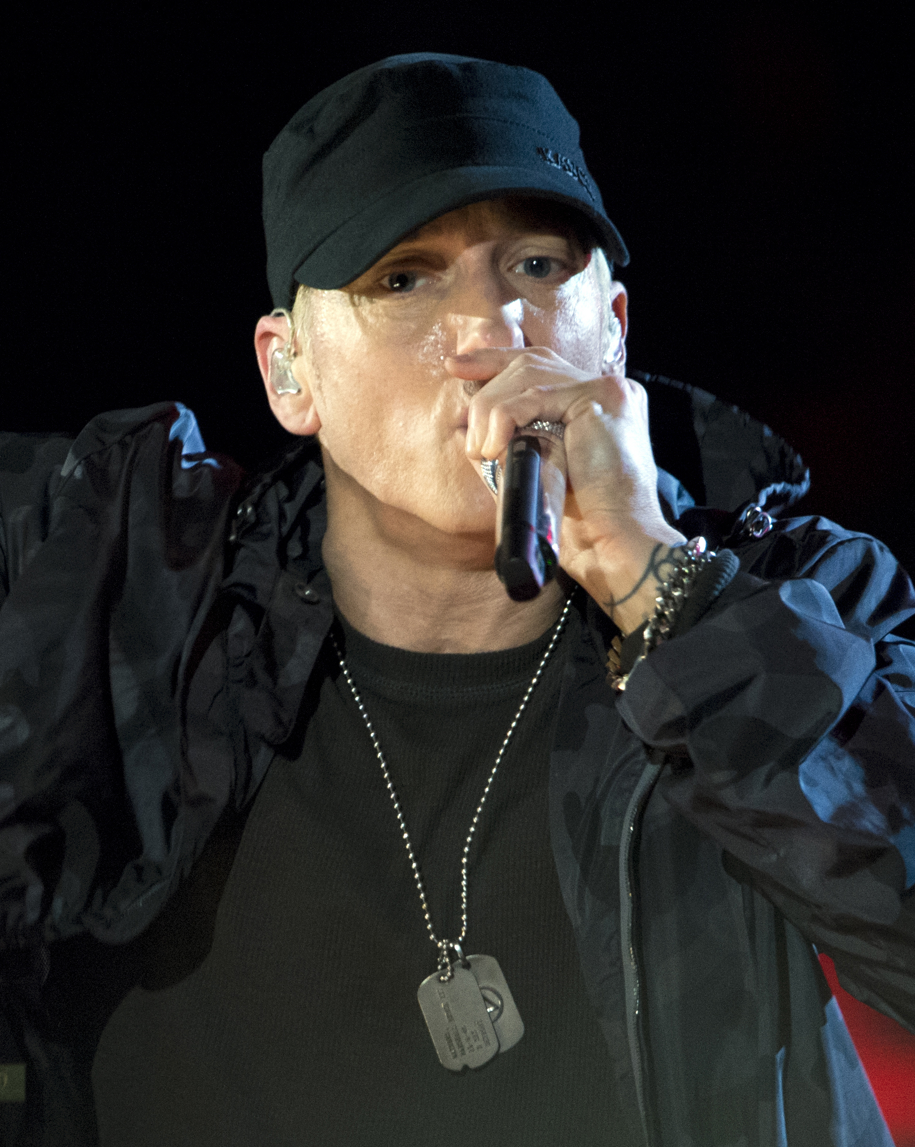 Eminem performs during The Concert for Valor in Washington, D.C. Nov. 11, 2014. DoD News photo by EJ Hersom